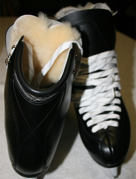 An early pre-prototype version of the Xtreme Ice Skate (XISK8), and has since made multiple changes of manufacturers. The skate is designed to withstand extreme tricks and jumps in the sport Xtreme Ice Skating. The "Xtreme Ice Skate" is presently in development. A finish date is not public information.